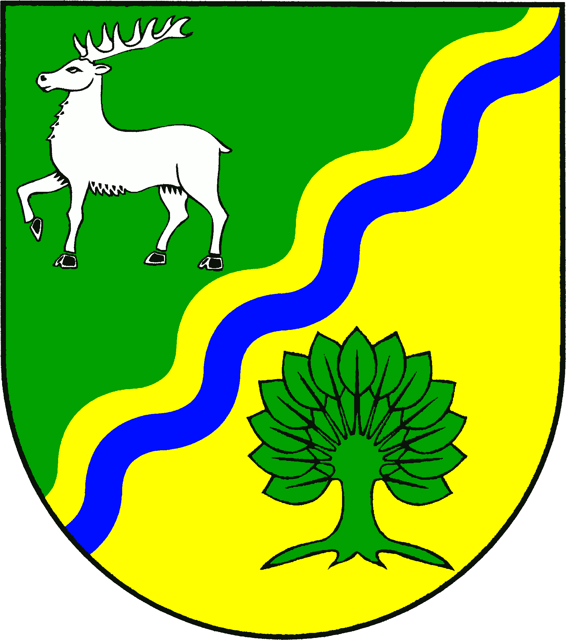 Coat of arms of the municipality Hamfelde in Schleswig-Holstein, Germany.